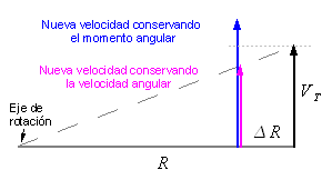 Drawing used in explanation of Coriolis force. Labels in Spanish. 2006